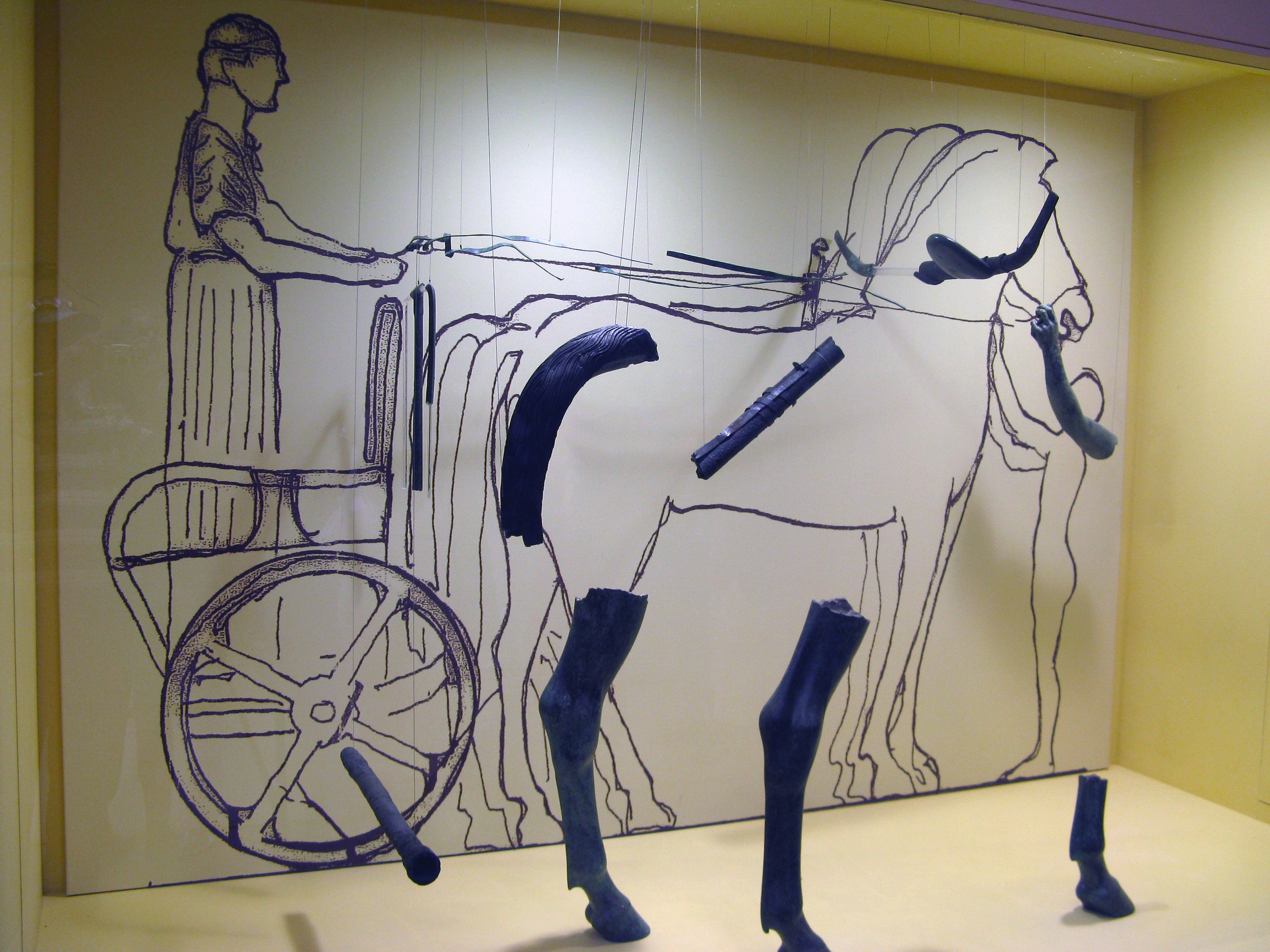 Fragments and drawing of Cherioteer